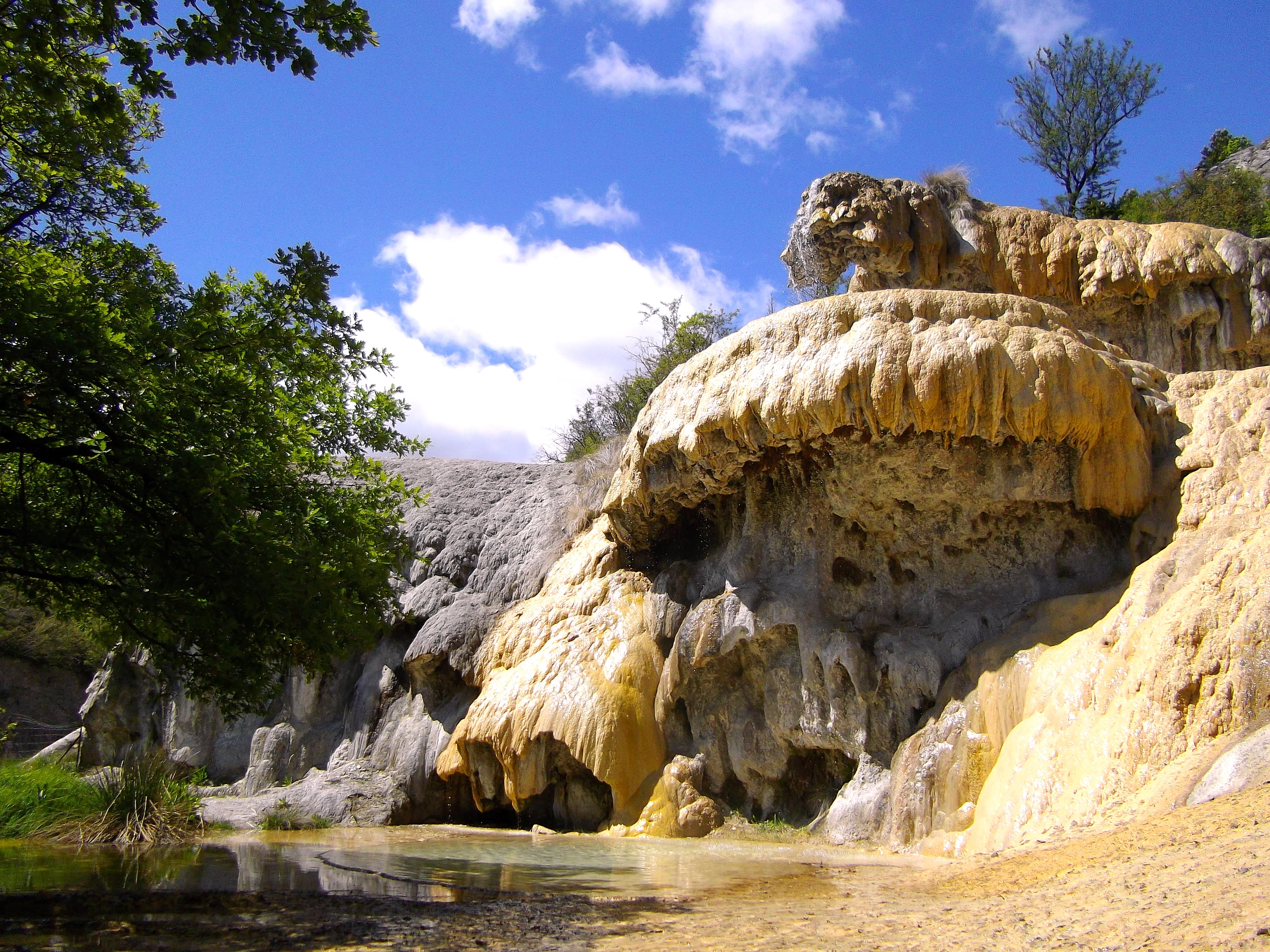 In the Alps, this geotope has been shaped by sinter (a sediment which is generated by chemical precipitation of carbonates in water, mainly CaCO3). The percolating water is from a nearby karst spring.